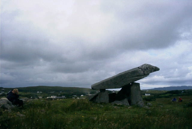 Kilclooney Dolmen. The main portal tomb (megalithic burial chamber) near Kilclooney. Originally part of a long cairn, with a smaller tomb at the other end. The Dolmen Centre in the nearby village explains the history of the area.